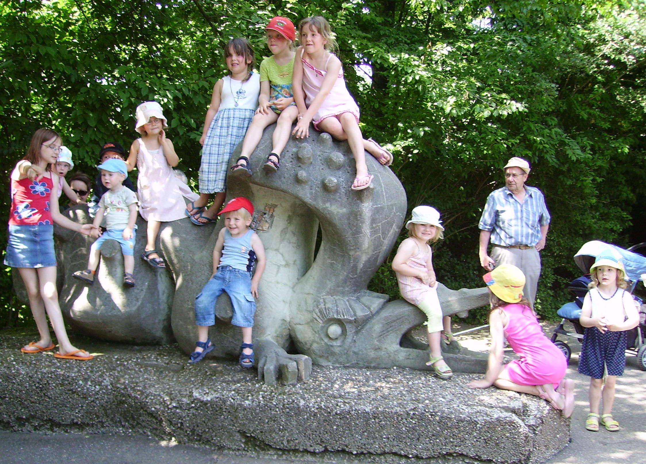 fairy garden in Ludwigsburg, Germany